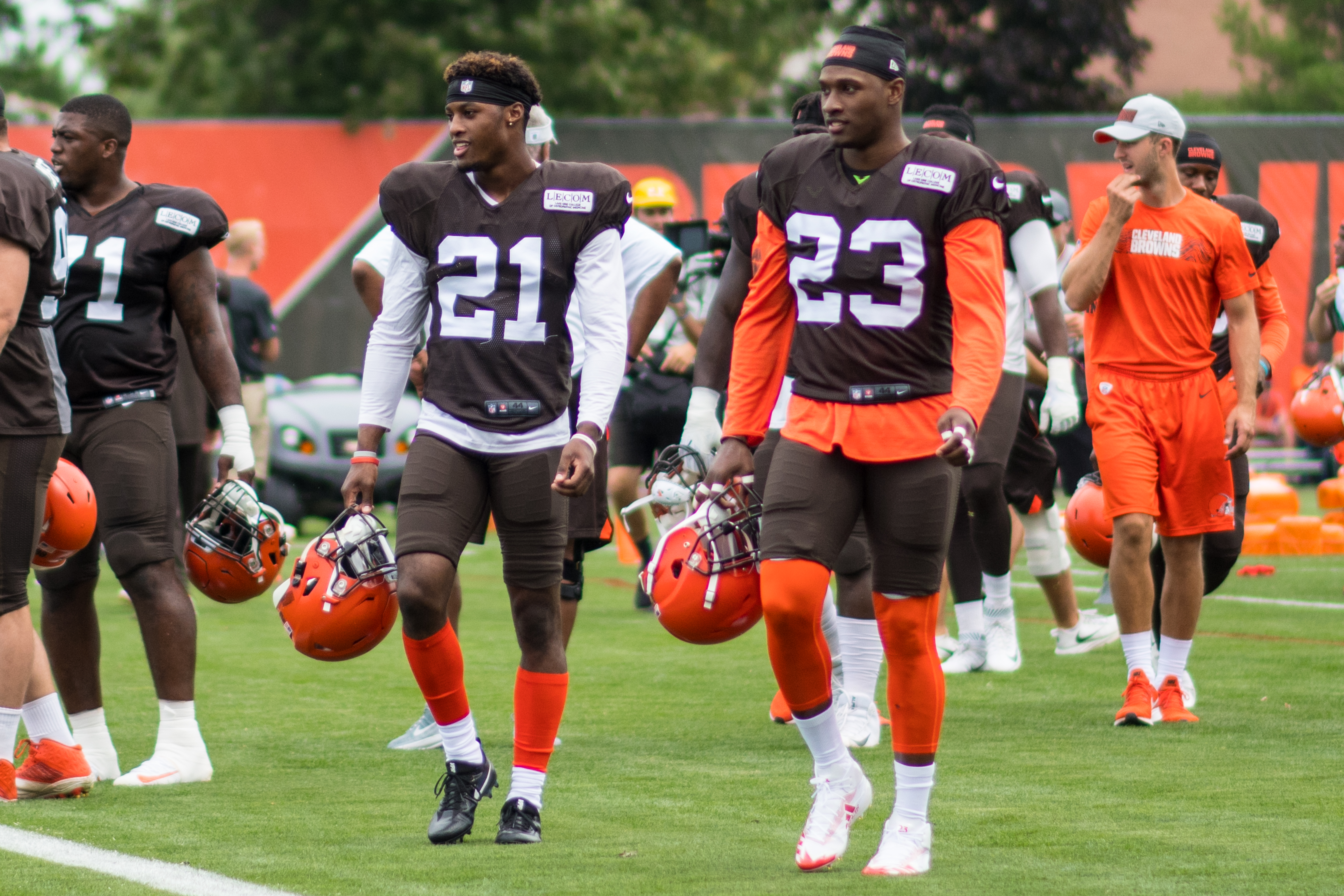 Denzel Ward and Damarious Randall